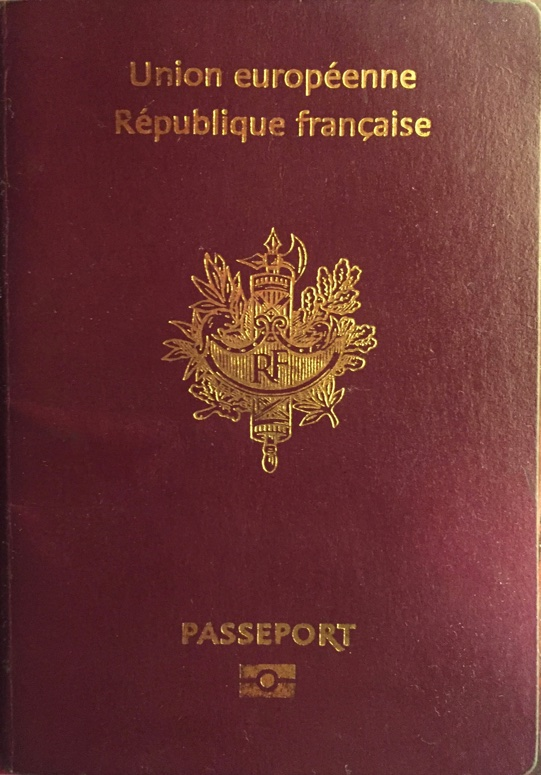 Cover of a french electronic passport (2007)